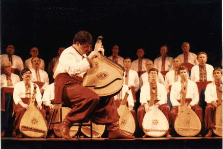 V. Mishalow playing bandura as soloist with the Ukrainian Bandurist Capella.